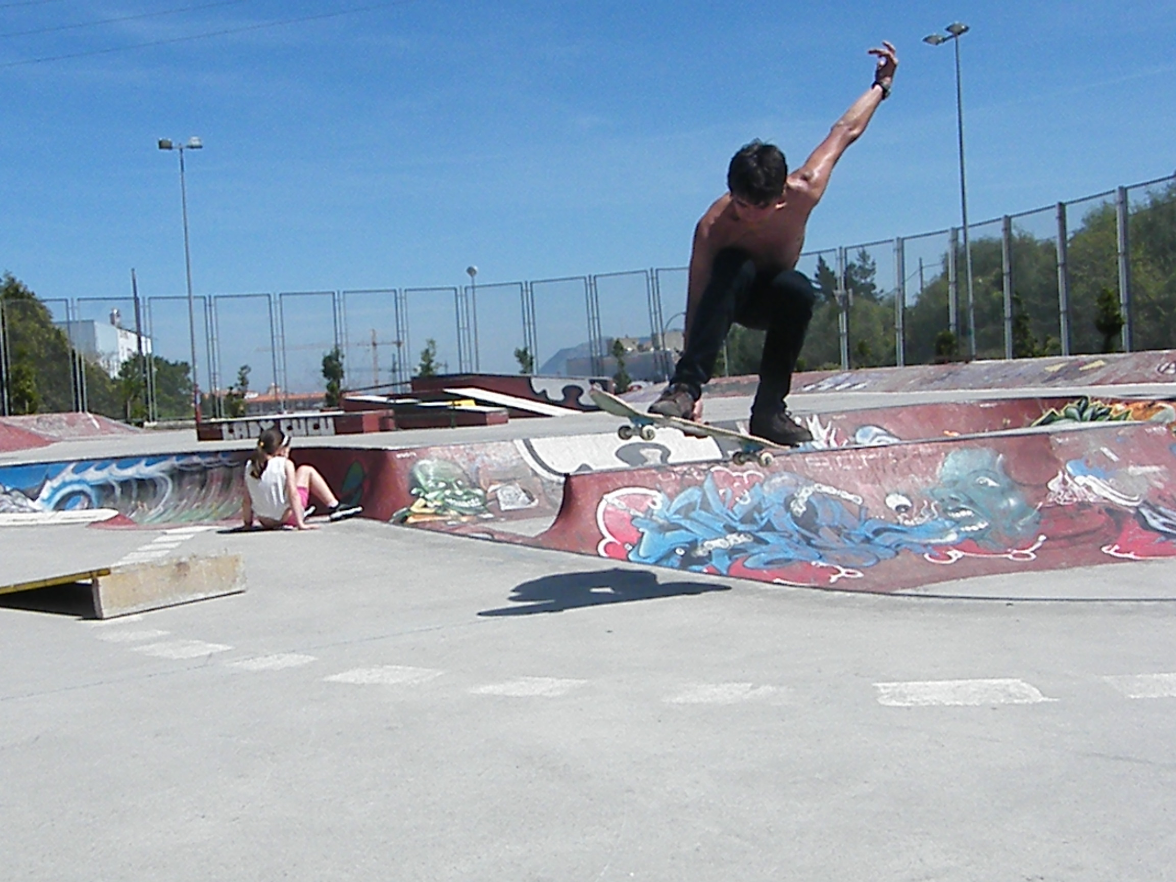 skateboarding trick tip